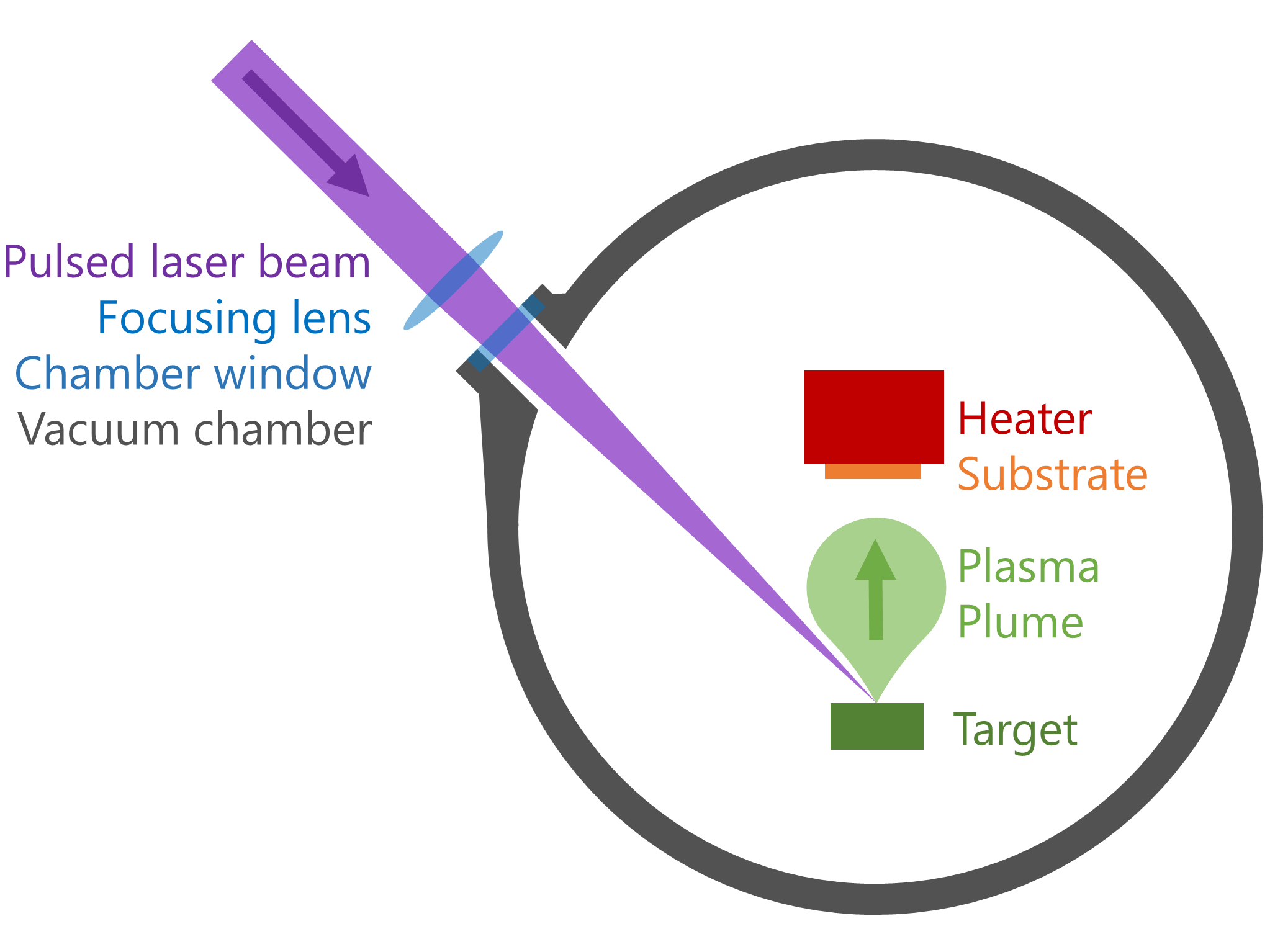 This is a simple diagram of pulsed laser deposition, a technique for depositing thin layers of materials.